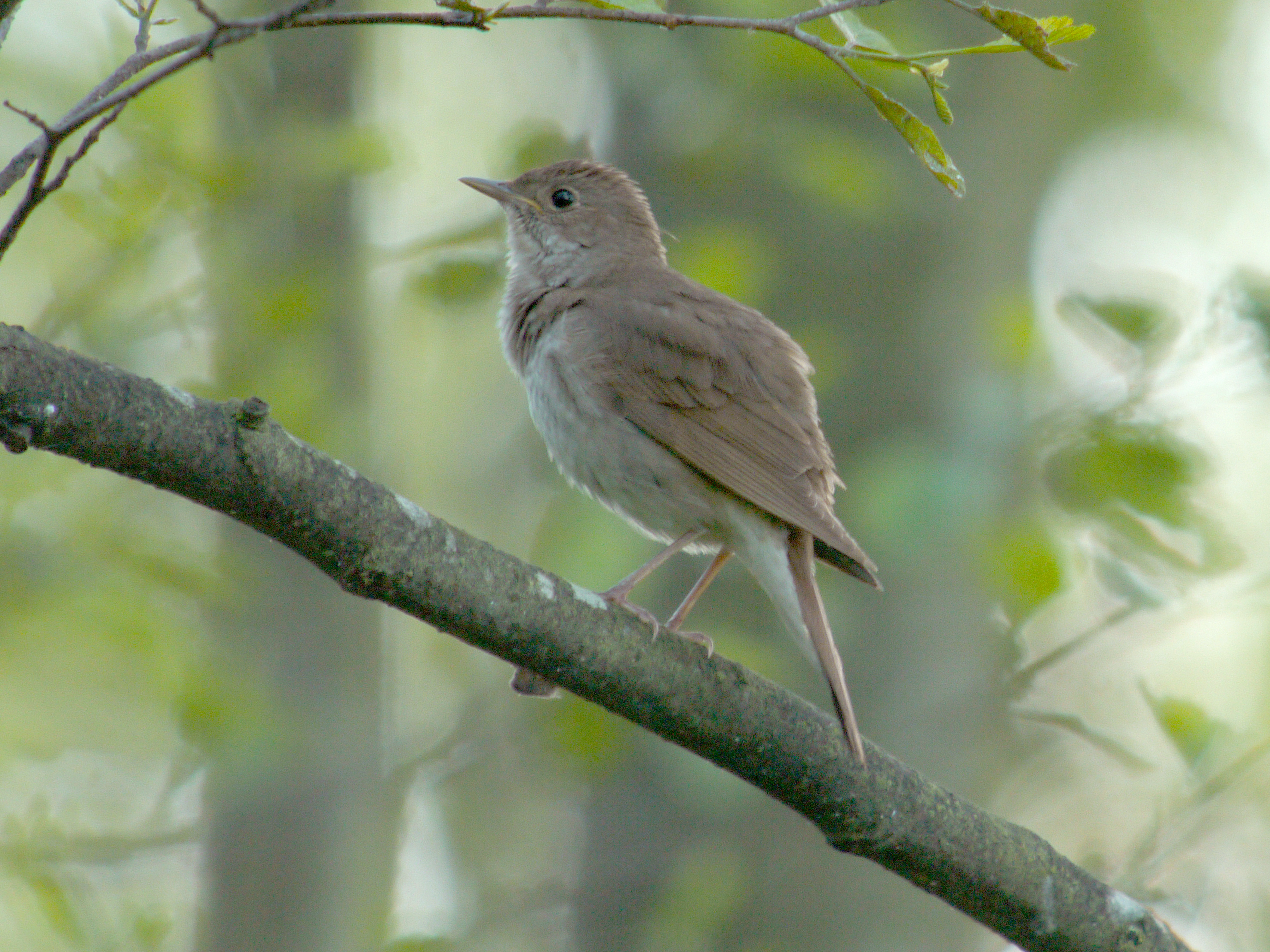 A Thrush Nightingale in Biebrza National Park, Poland.